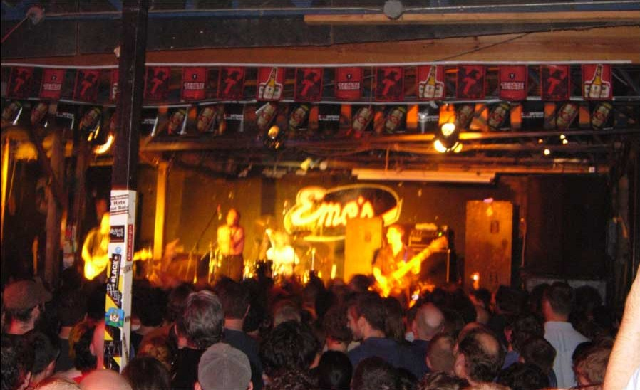 Scratch Acid live